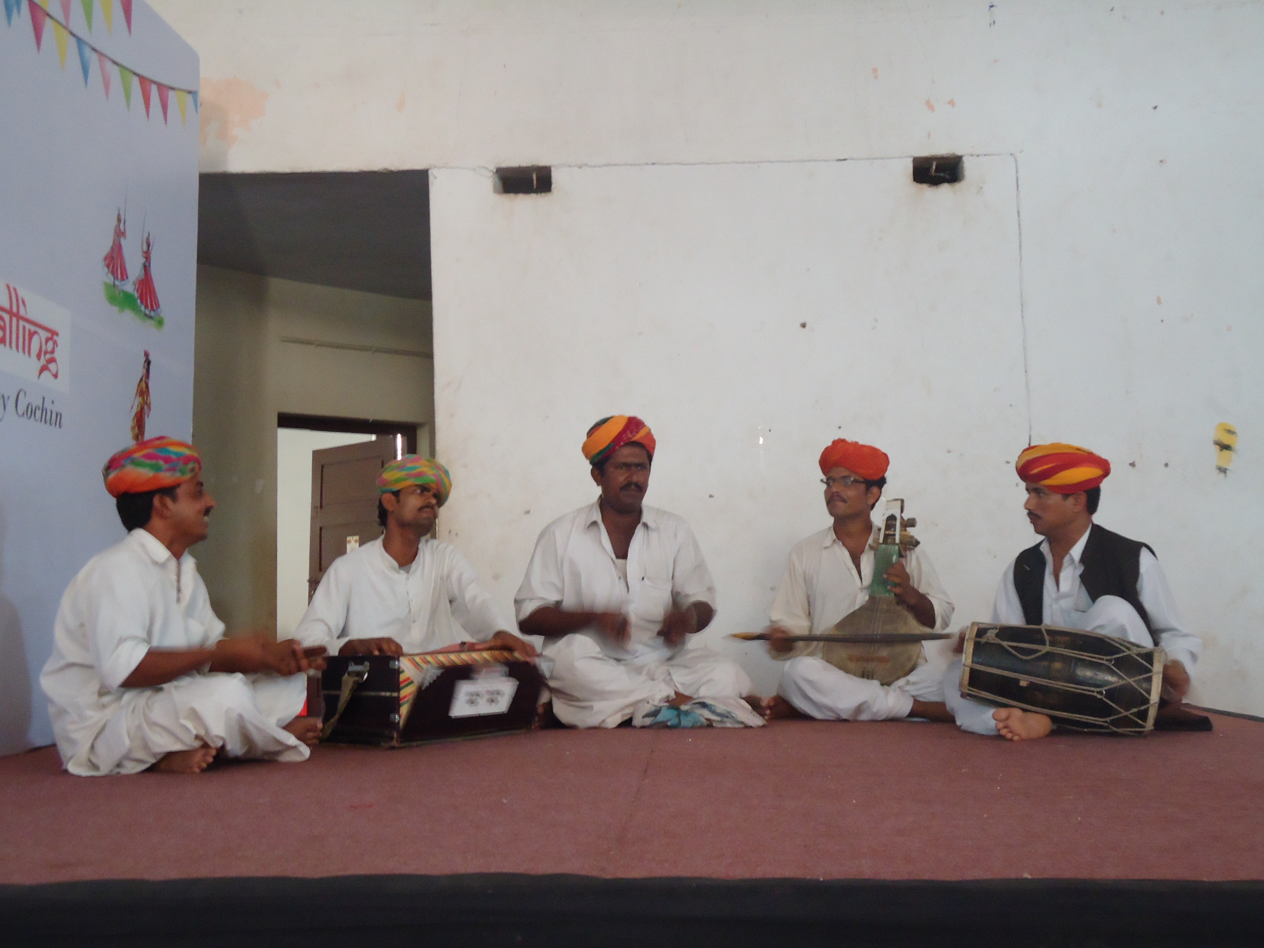 This media file is uploaded with Malayalam loves Wikimedia event - 2. Rajasthan Singers